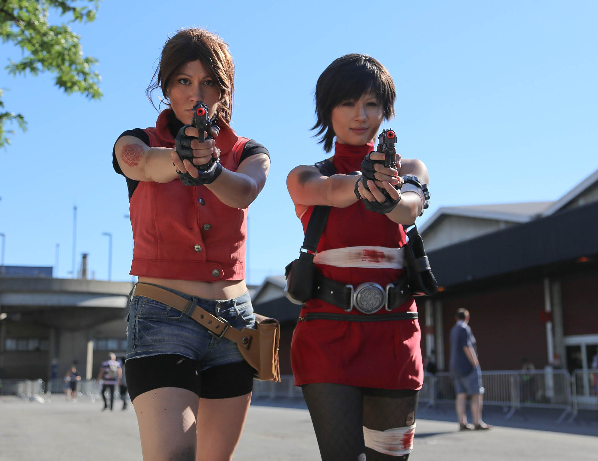 Cosplay of Claire Redfield and Ada Wong (from the Resident Evil franchise) at Special Edition: NYC in 2015.